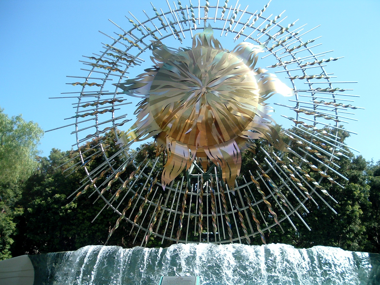 The Fountain in Sunshine Plaza at California Adventure